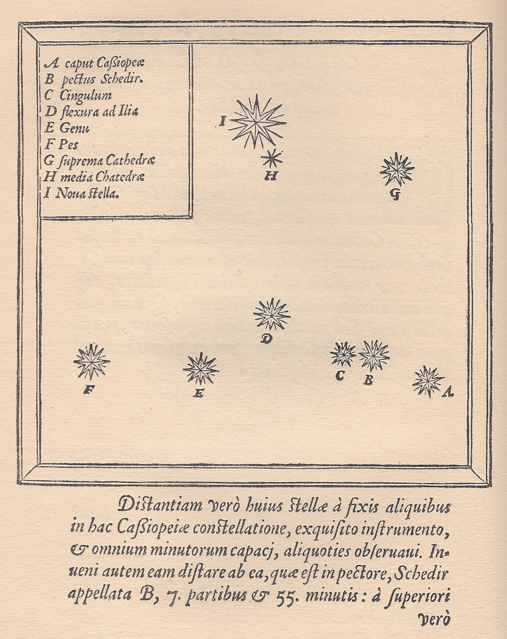 Star map of the constellation Cassiopeia showing the position of the Supernova of 1572. The labeled stars are: A caput Caßiopeæ (ζ Cas) B pectus Schedir. (α Cas) C Cingulum (η Cas) D flexura ad Ilia (γ Cas) E Genu (δ Cas) F Pes (ε Cas) G suprema Cathedræ (β Cas) H media Chatedræ (κ Cas) I Noua stella. (SN 1572)